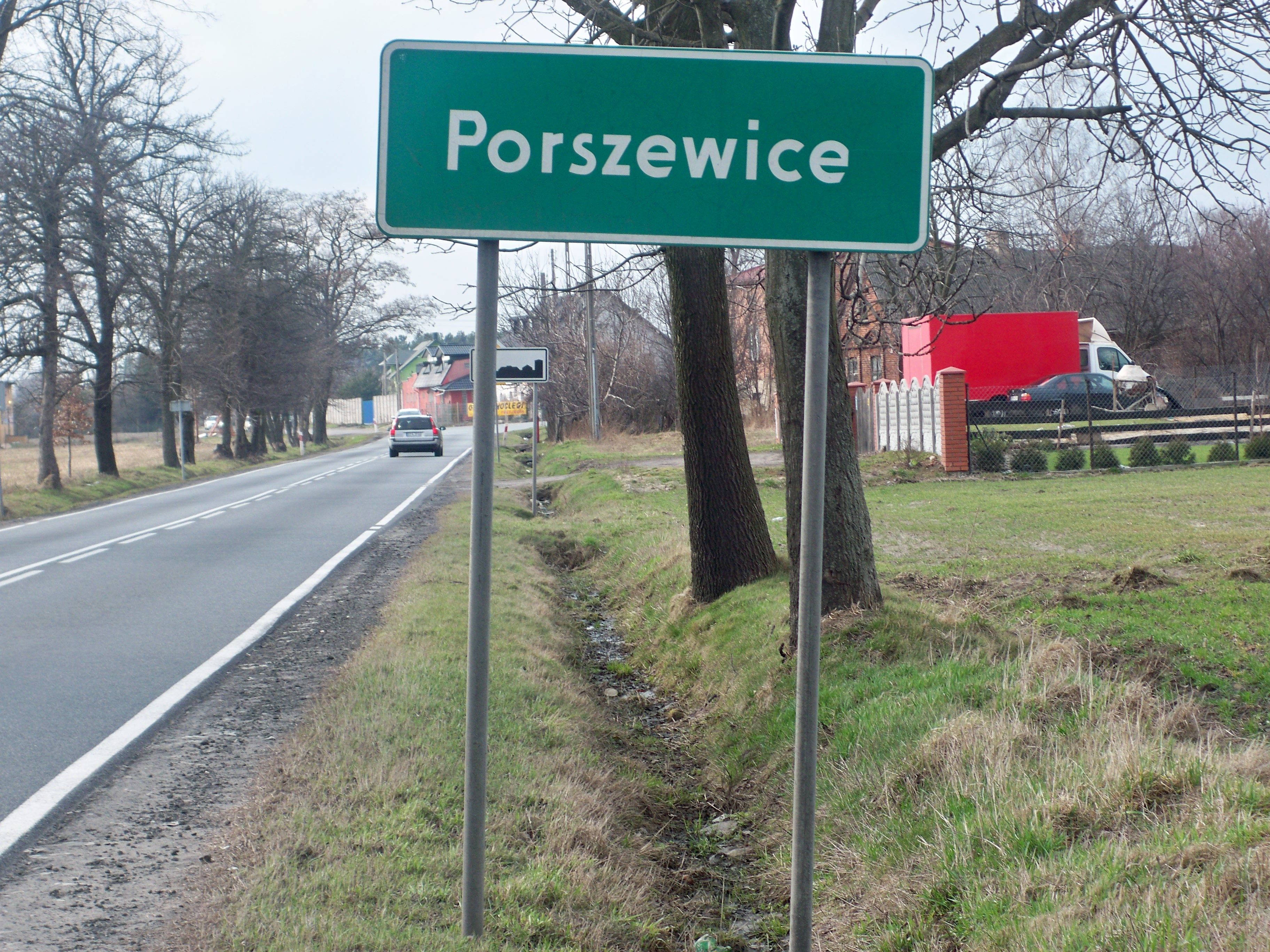 My photo